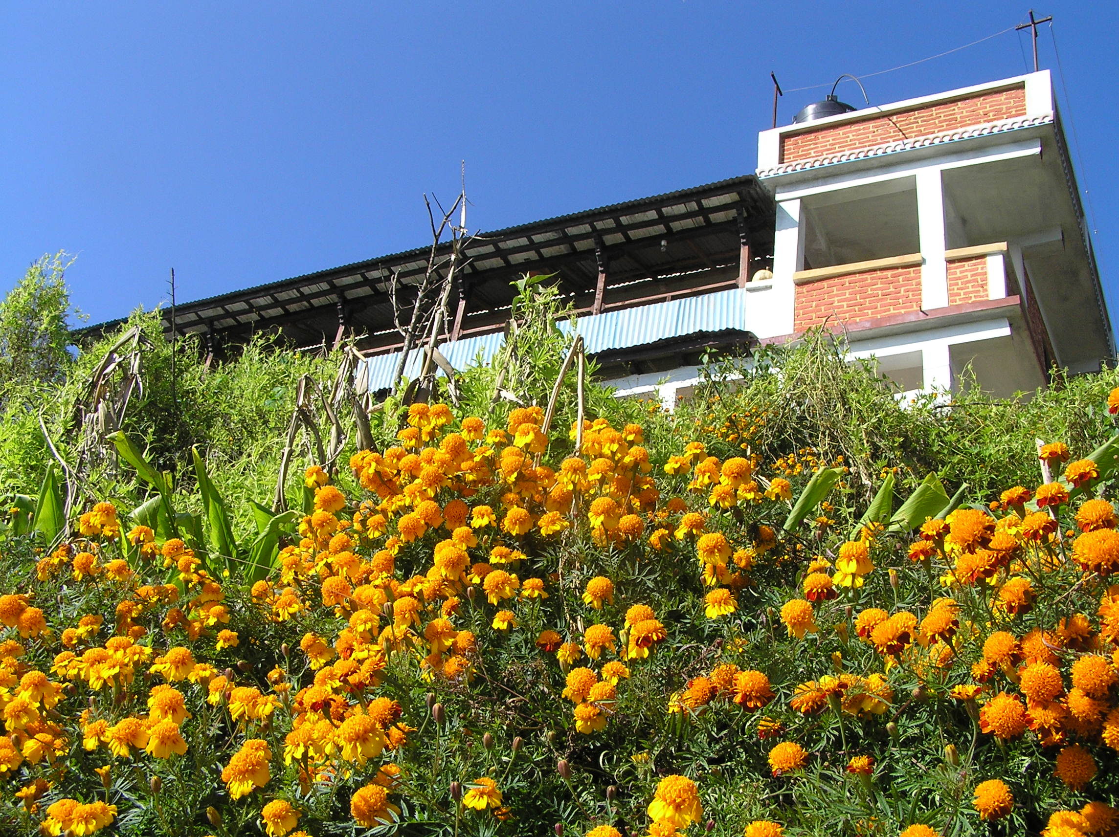 Dalchoki Rising Home-stay